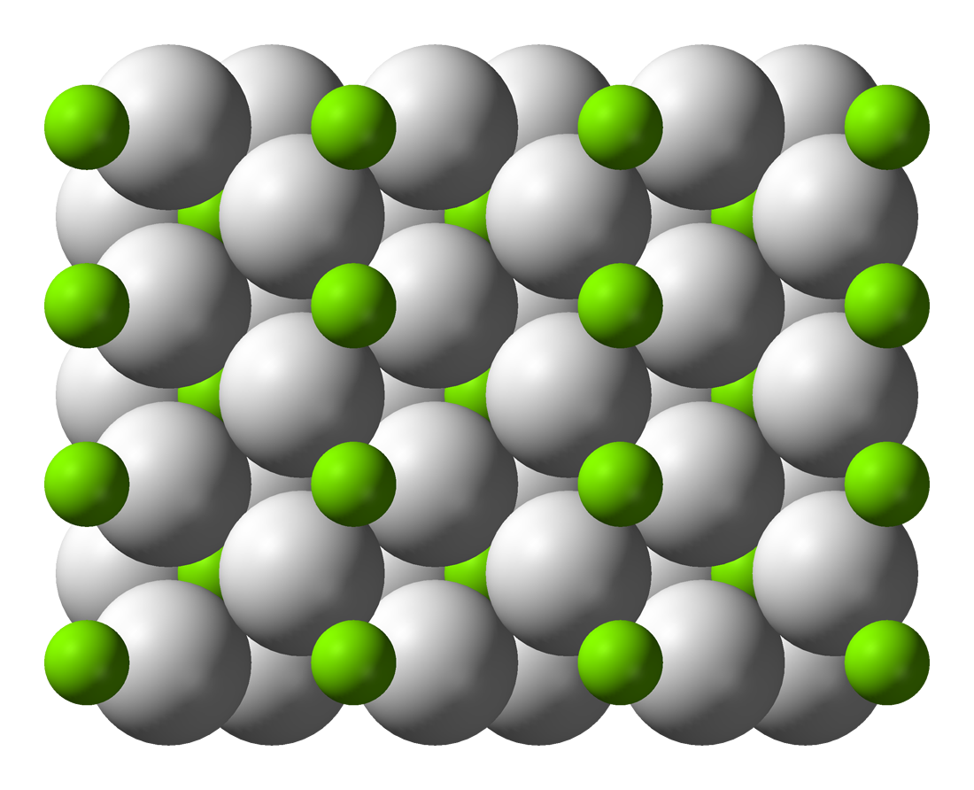 Space-filling model (ionic radii) of part of the crystal structure of magnesium hydride, MgH2. X-ray crystallographic data from W. H. Zachariasen, C. E. Holley and J. F. Stamper Jnr (May 1963). "Neutron diffraction study of magnesium deuteride". Acta Cryst. 16 (5): 352-353. Image generated in Accelrys DS Visualizer.